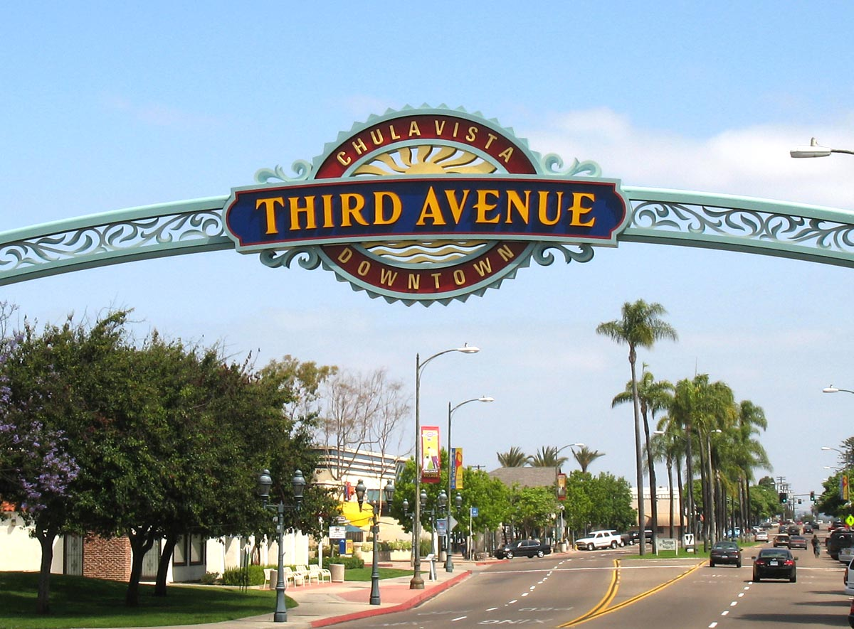 This is recent; see also similar neighborhood identifiers in San Diego